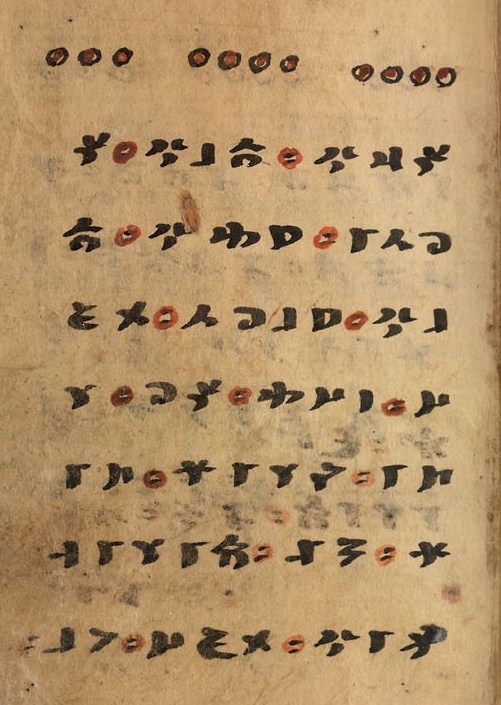 Omen 11 of the Irk Bitig (British Library Or.8212/161 folio 13a)